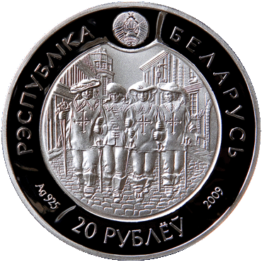 Belarus and the global community. Commemorative coins "Porthos"